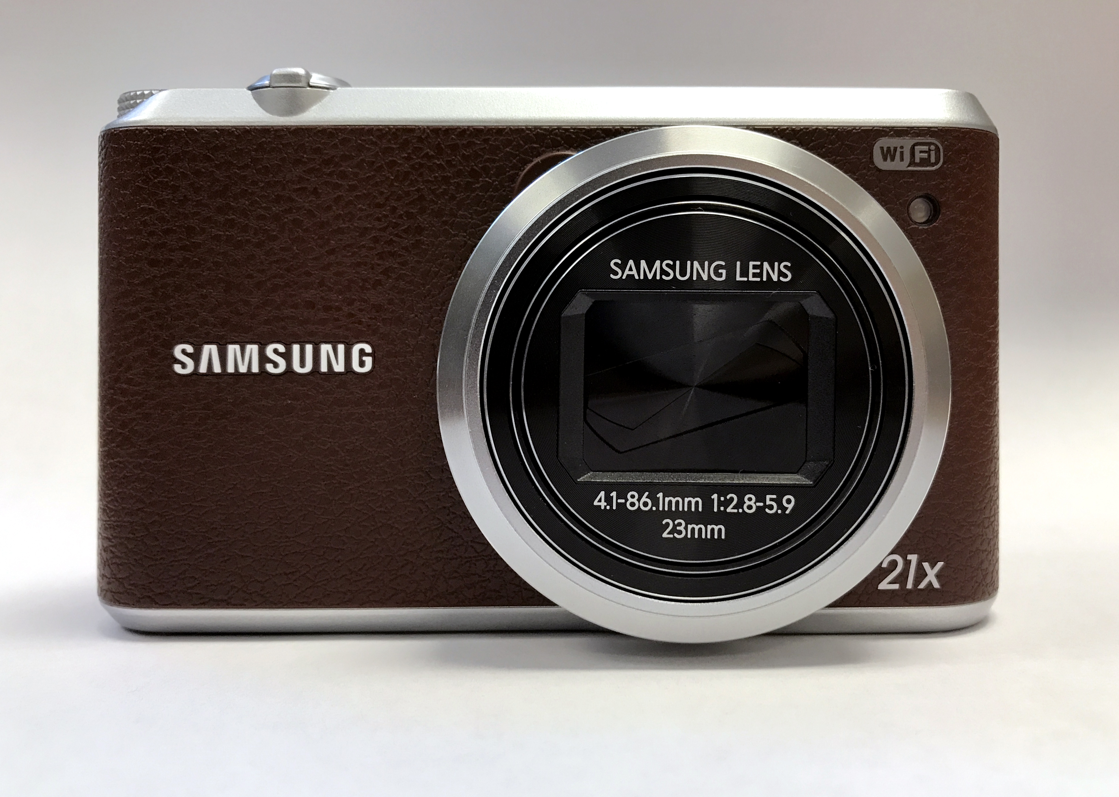 Samsung Digital Smart Camera (WB350 series)